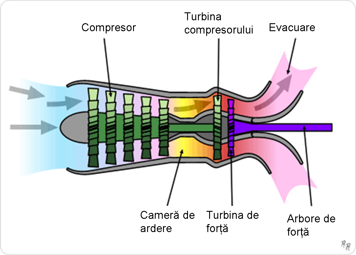 Schematic diagram showing the operation of a generalised turboshaft engine, drawn using XaraXtreme by Emoscopes 04:31, 14 December 2005 (UTC) Translated by Giku